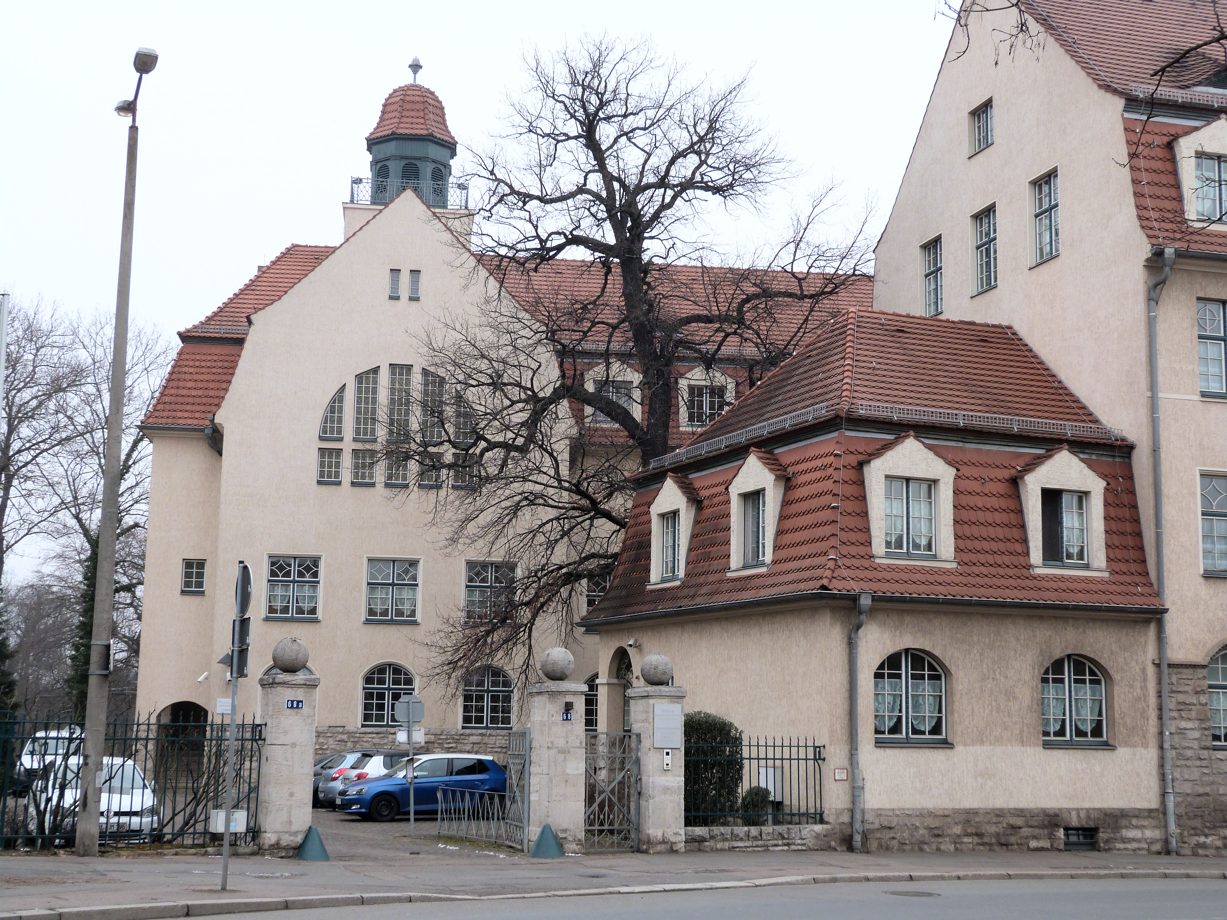 Nursing home Foundation hospital St. Cyriaci et Antonii, Glauchaer Straße No. 68, Halle (Saale)